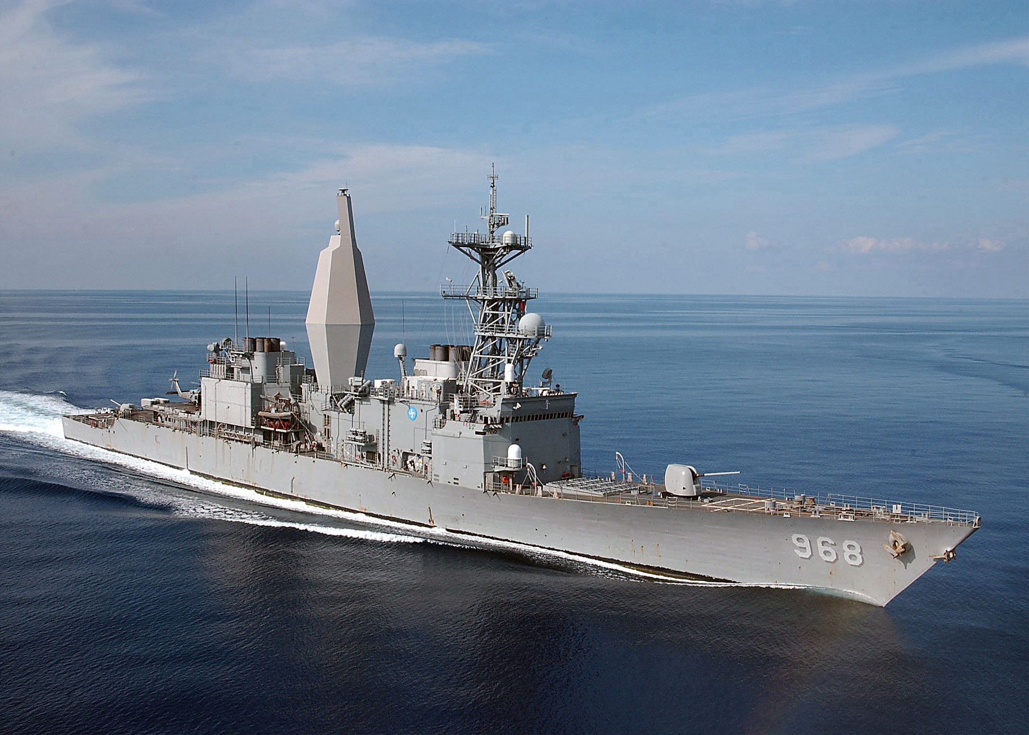 At sea with USS Arthur W. Radford (DD 968) Nov. 27, 2002 -- The Arthur W. Radford steams through the Mediterranean Sea as the Spruance-class destroyer nears the end of a regularly scheduled deployment with the Washington Battle Group in support of Operations Enduring Freedom and Southern Watch. U.S. Navy photo by Photographer's Mate 3rd Class Summer M. Anderson. (RELEASED) (The weird-looking thing is the Advanced Enclosed Mast/Sensor System.)